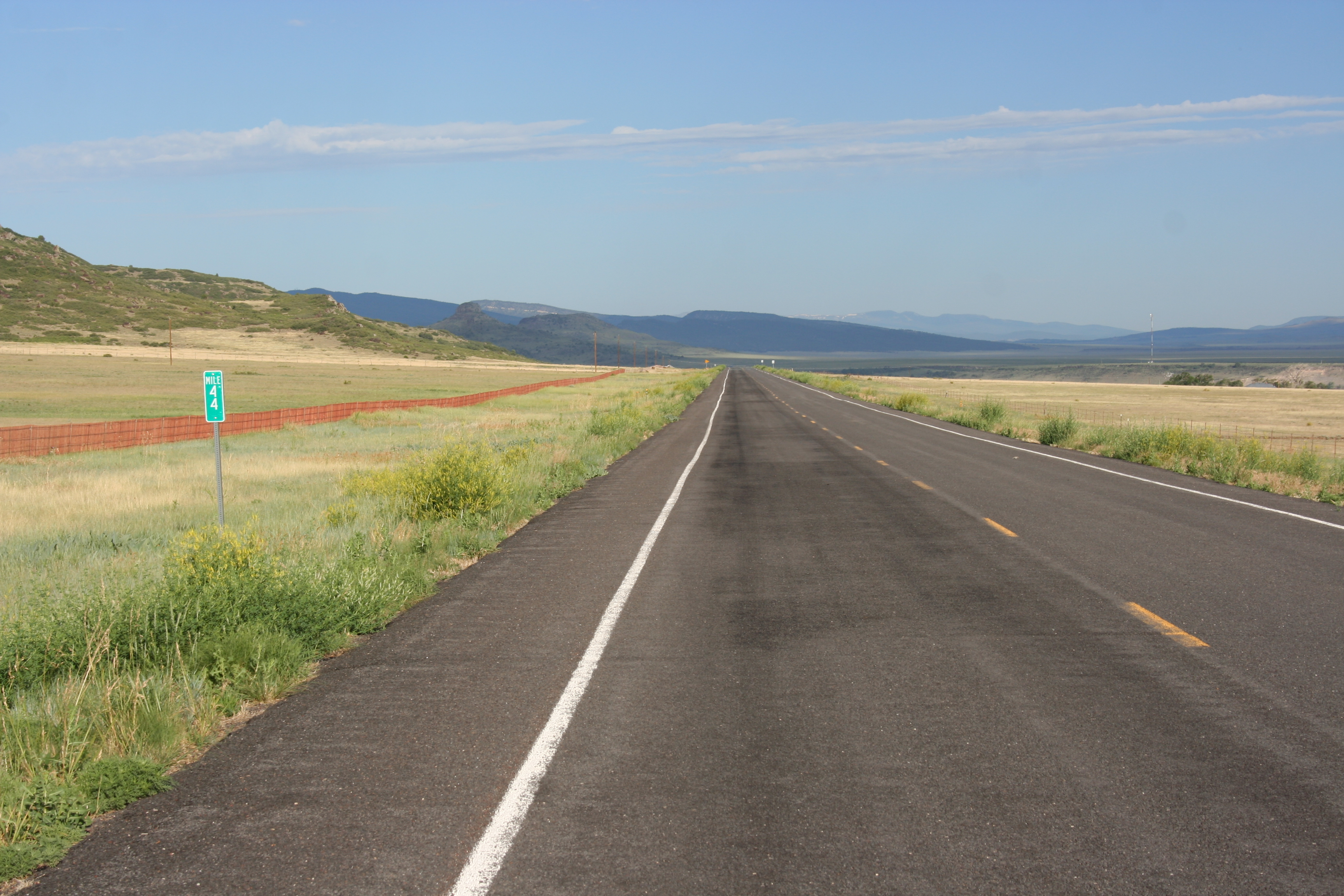 Looking west toward Wagon Mound on NM Hwy 120